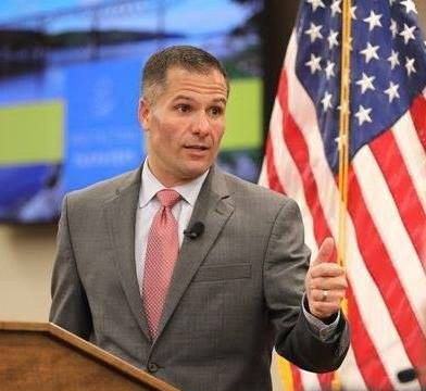 American politician Marc Molinaro